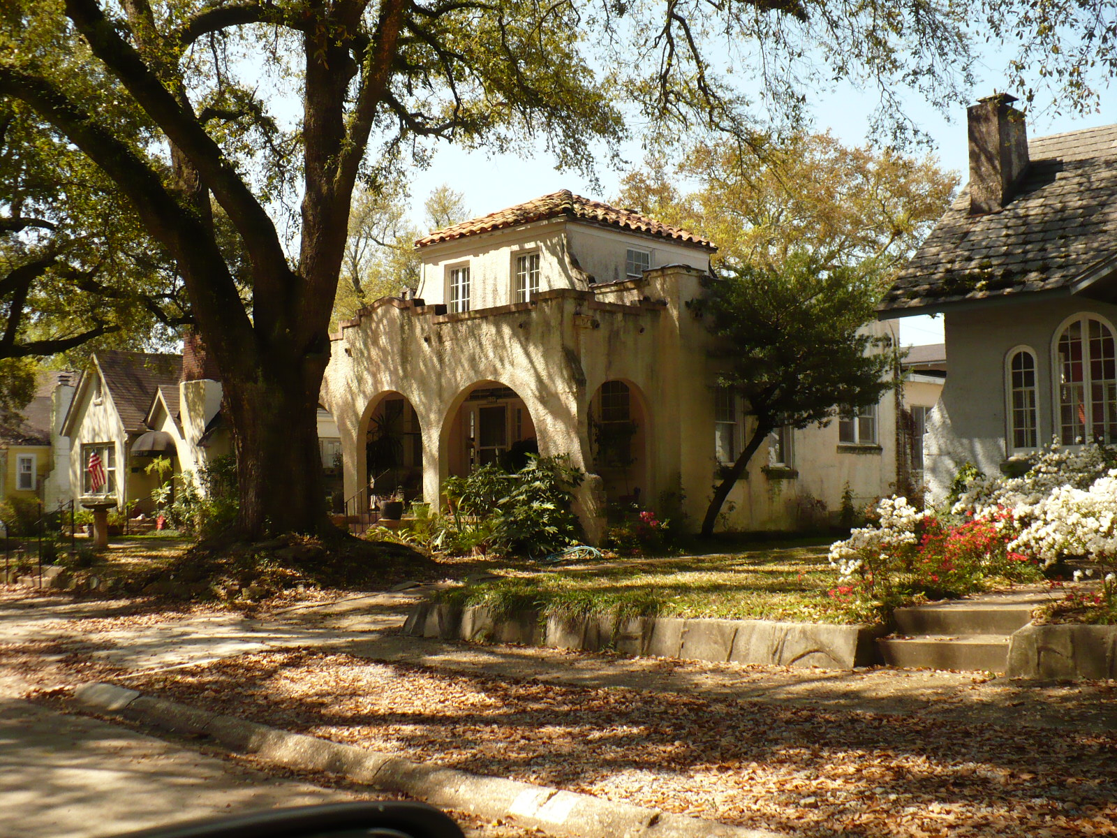 129 Florence Place in Mobile, Alabama. A modest example of Spanish Colonial Revival architecture on the Central Gulf Coast of the United States. Individually listed on the National Register of Historic Places.